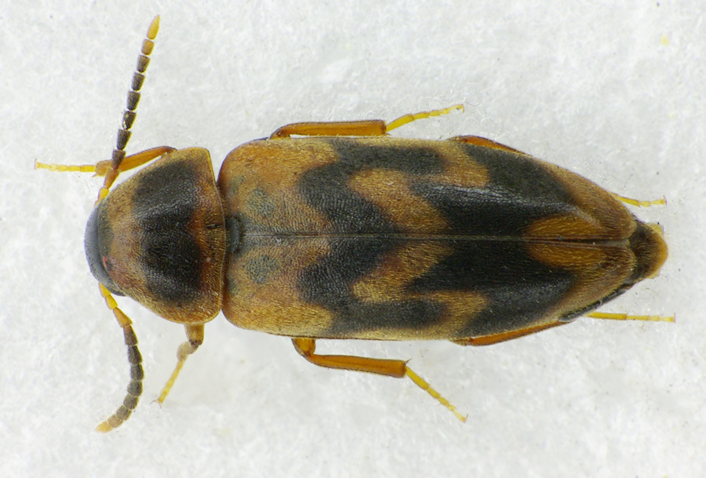 Abdera flexuosa found at South-West-Germany between the towns Tuttlingen and Rottweil at 700 m.o.s at end of may on Fomes (?)